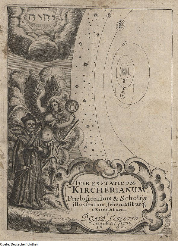 Original image description from the Deutsche Fotothek Astronomie